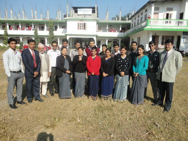 Vsss Premises along with teaching staff